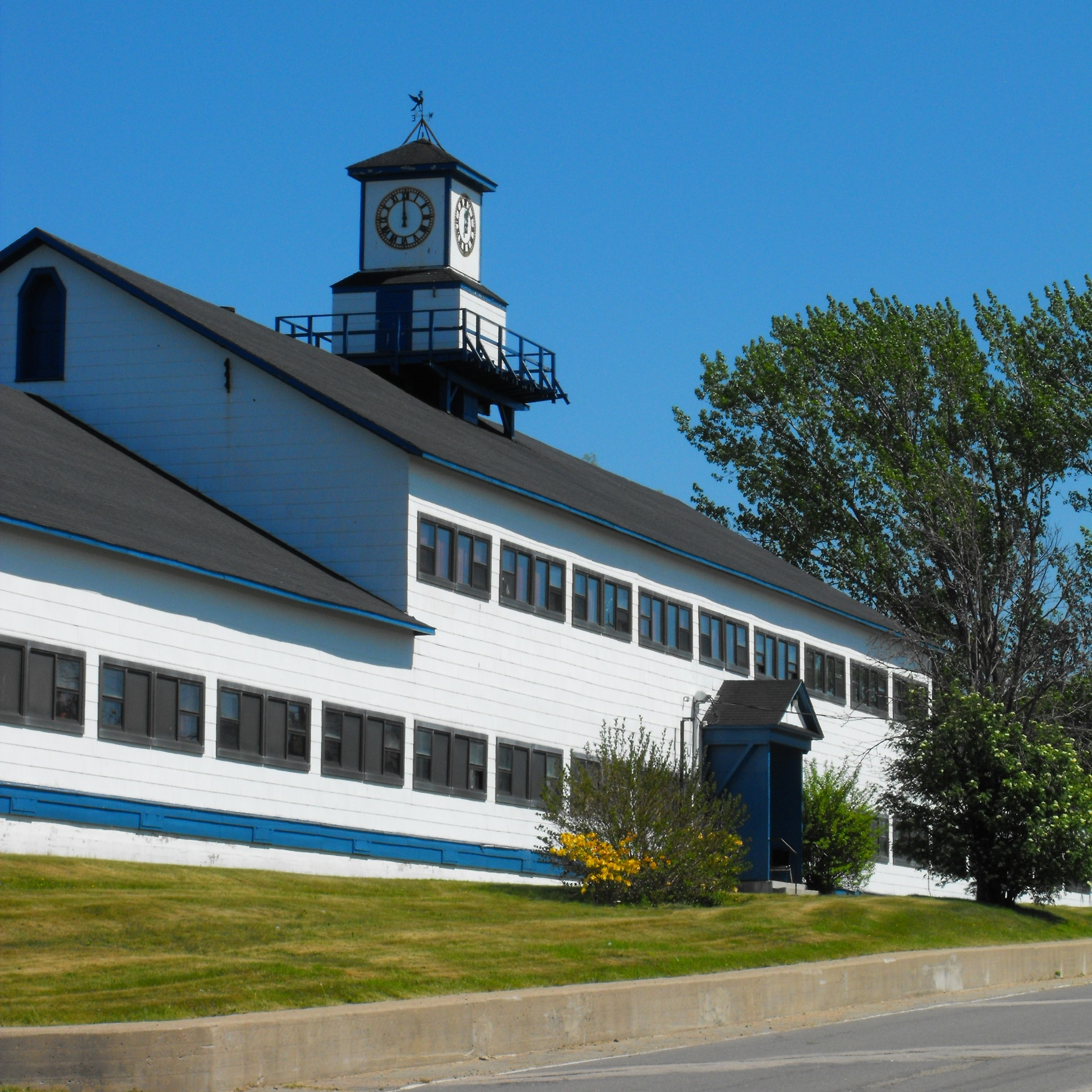 Administration building, Kespuwik (formerly CFB Cornwallis) Annapolis County, Nova Scotia